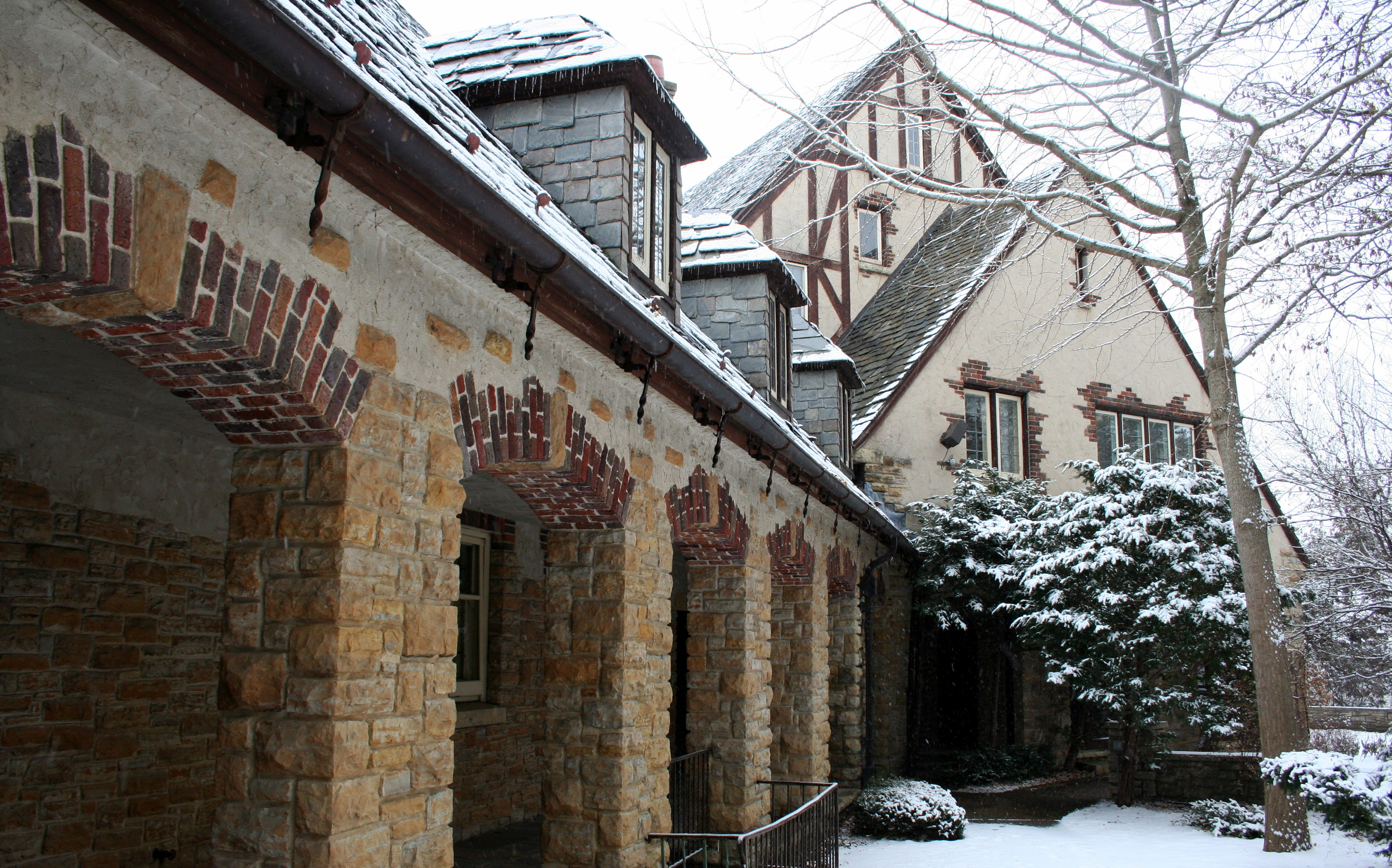 Back of the Plummer House in Rochester, Minnesota, United States